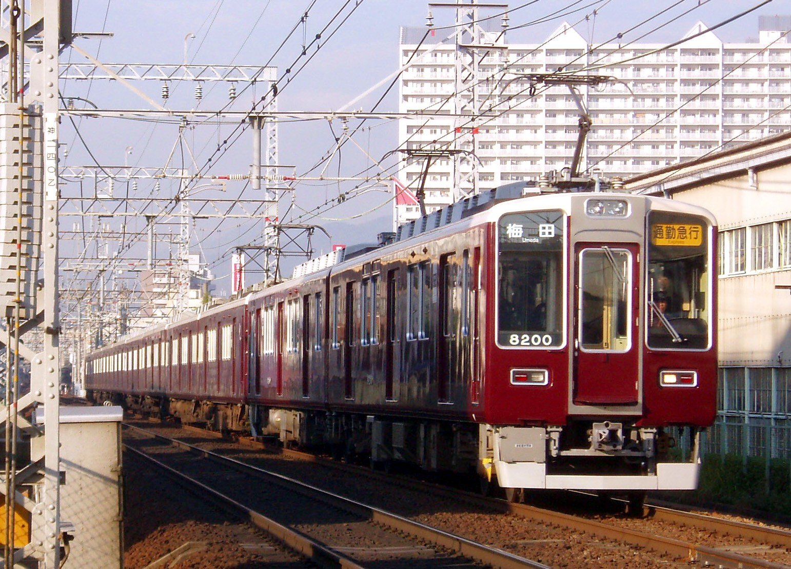 Hankyu Railway 8200series8200F Eletric Car 阪急電鉄8200系（8200F）電車